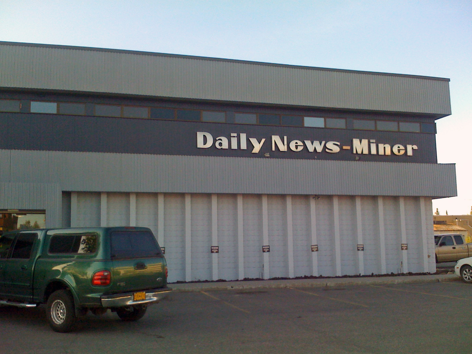 The offices of the Fairbanks Daily News-Miner in Fairbanks, Alaska.